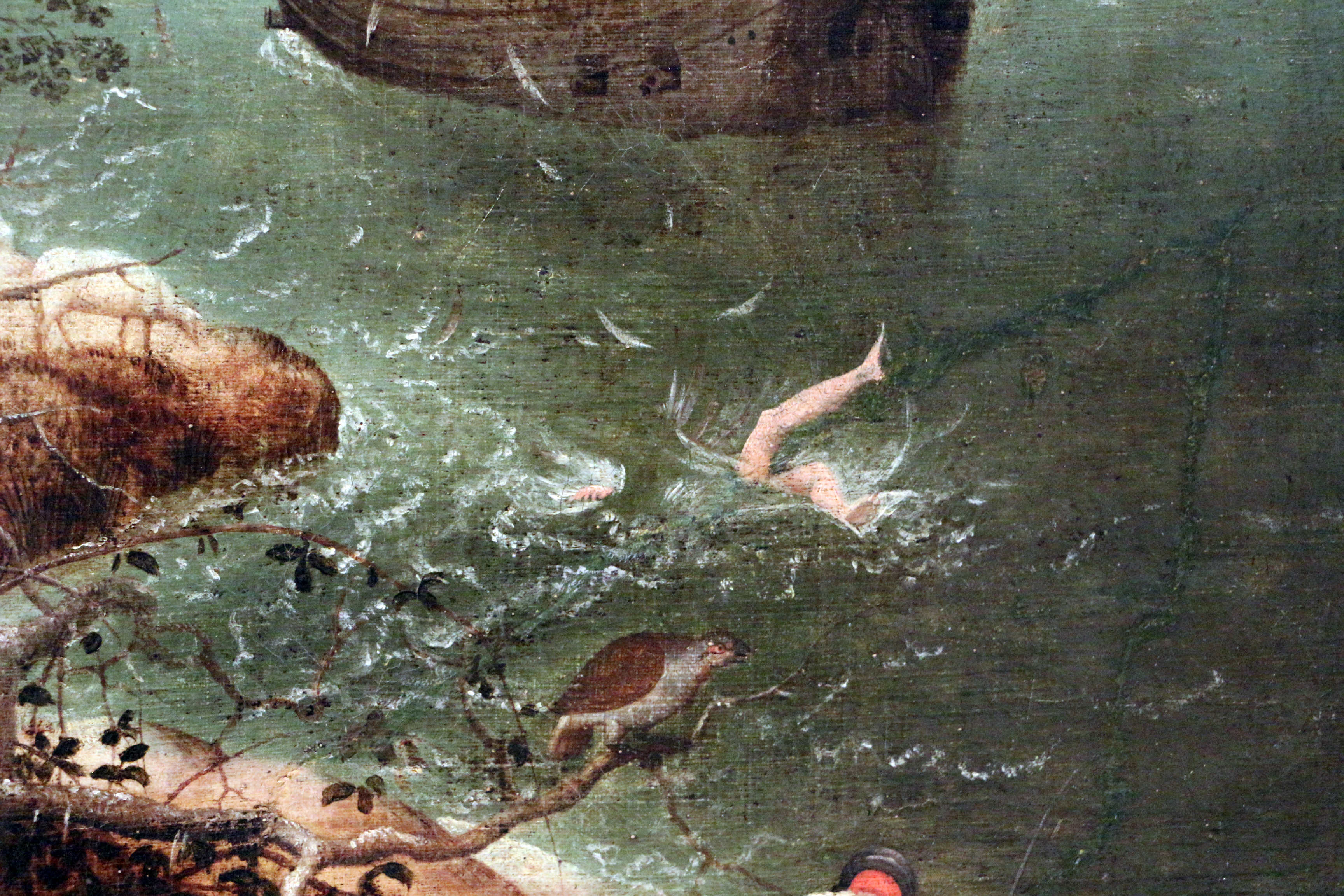 Landscape with the Fall of Icarus